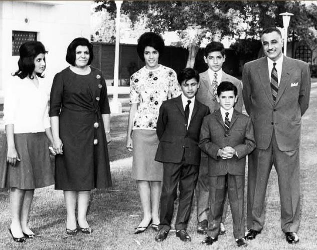 Egyptian President Gamal Abdel Nasser and his family at Manshiyat al-Bakri. From left to right: his daughter Mona, his wife Tahia, his daughter Hoda, his son Abdel Hakim, son Khalid, son Abdel Hamid, Nasser.